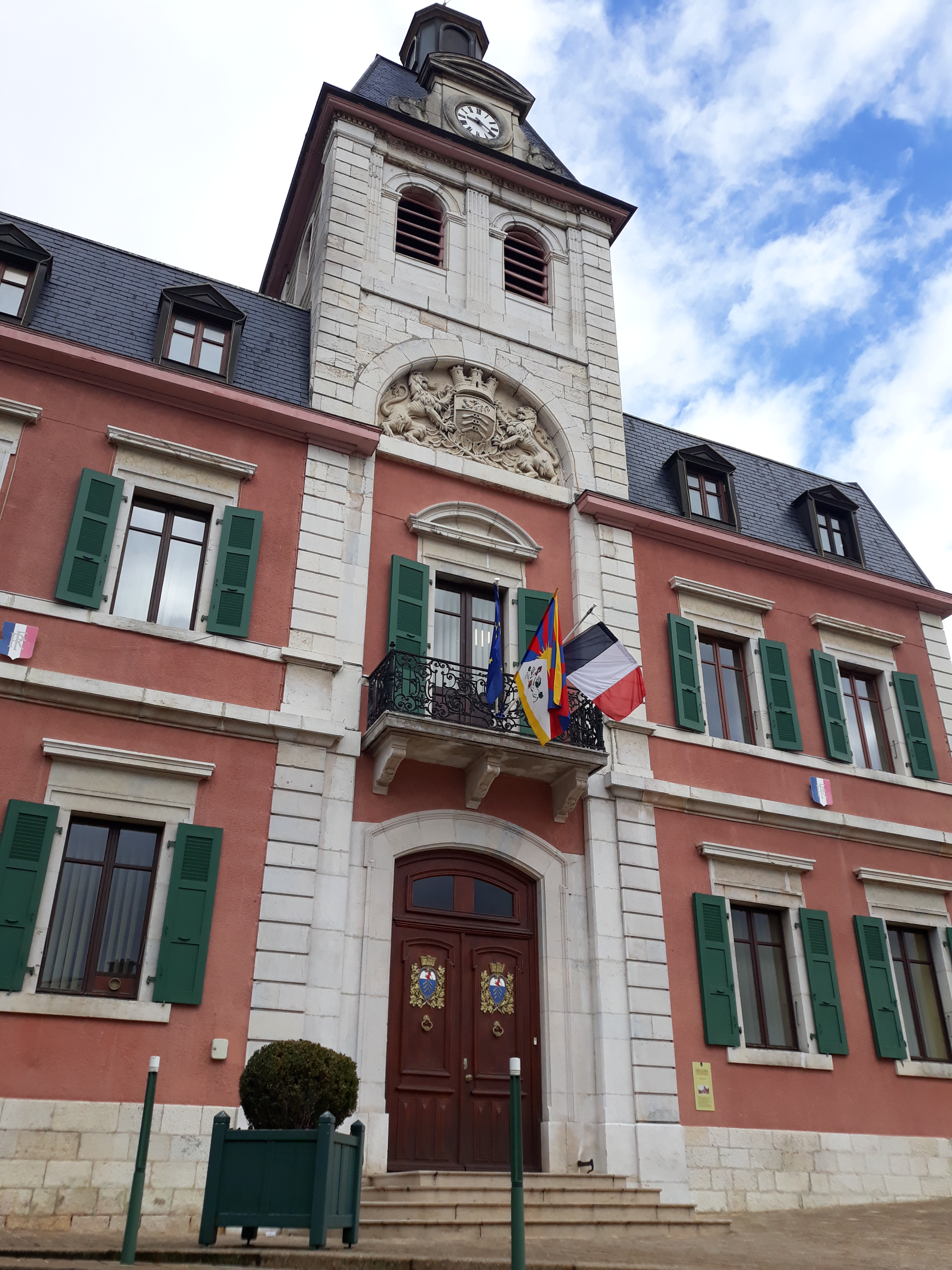 March 11th, 2020. Gex city hall with the Tibet flag among the French and European one, to commemorate the Tibetan Independance declaration of March 1959.